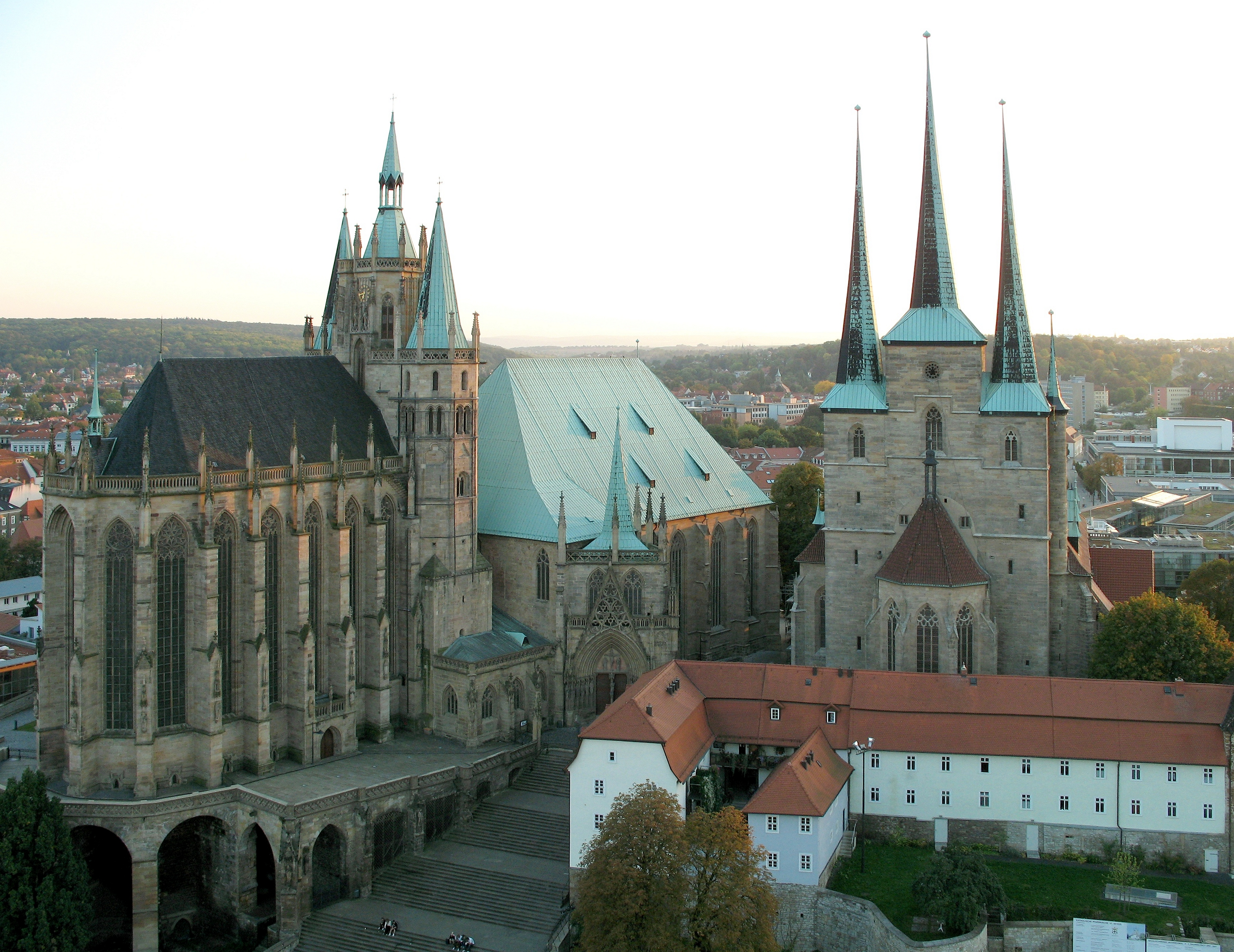 Erfurt Cathedral (Erfurter Dom Sankt Marien) and Church St. Severius, self shot from a Ferris Wheel at the Erfurt Oktoberfest 23rd Sept 2007